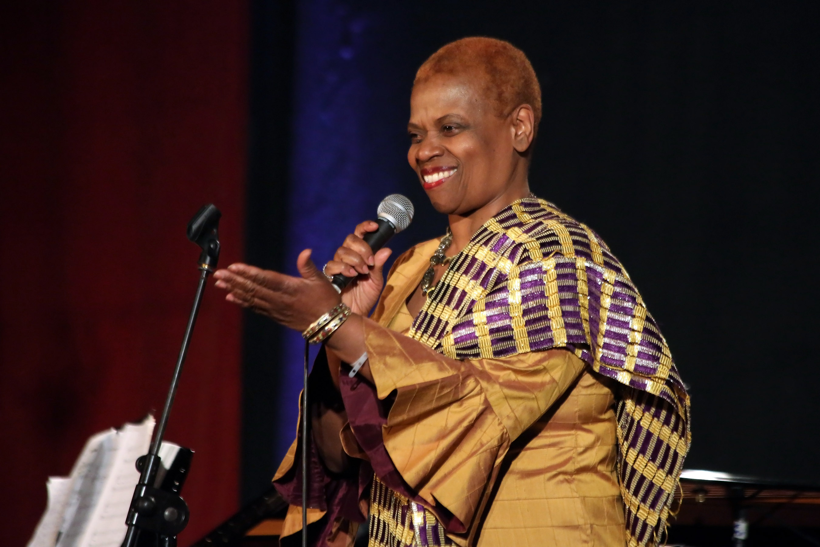 Tulivu-Donna Cumberbatch (voc), Rod Williams (p), Rachiim Ausar Sahu (b), Mark Johnson (dr) - INNtöne Jazzfestival (Diersbach, Upper Austria)